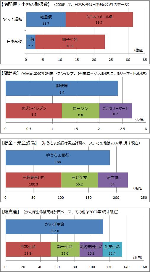 Graph of Japan Post Group and the others companies in Japan